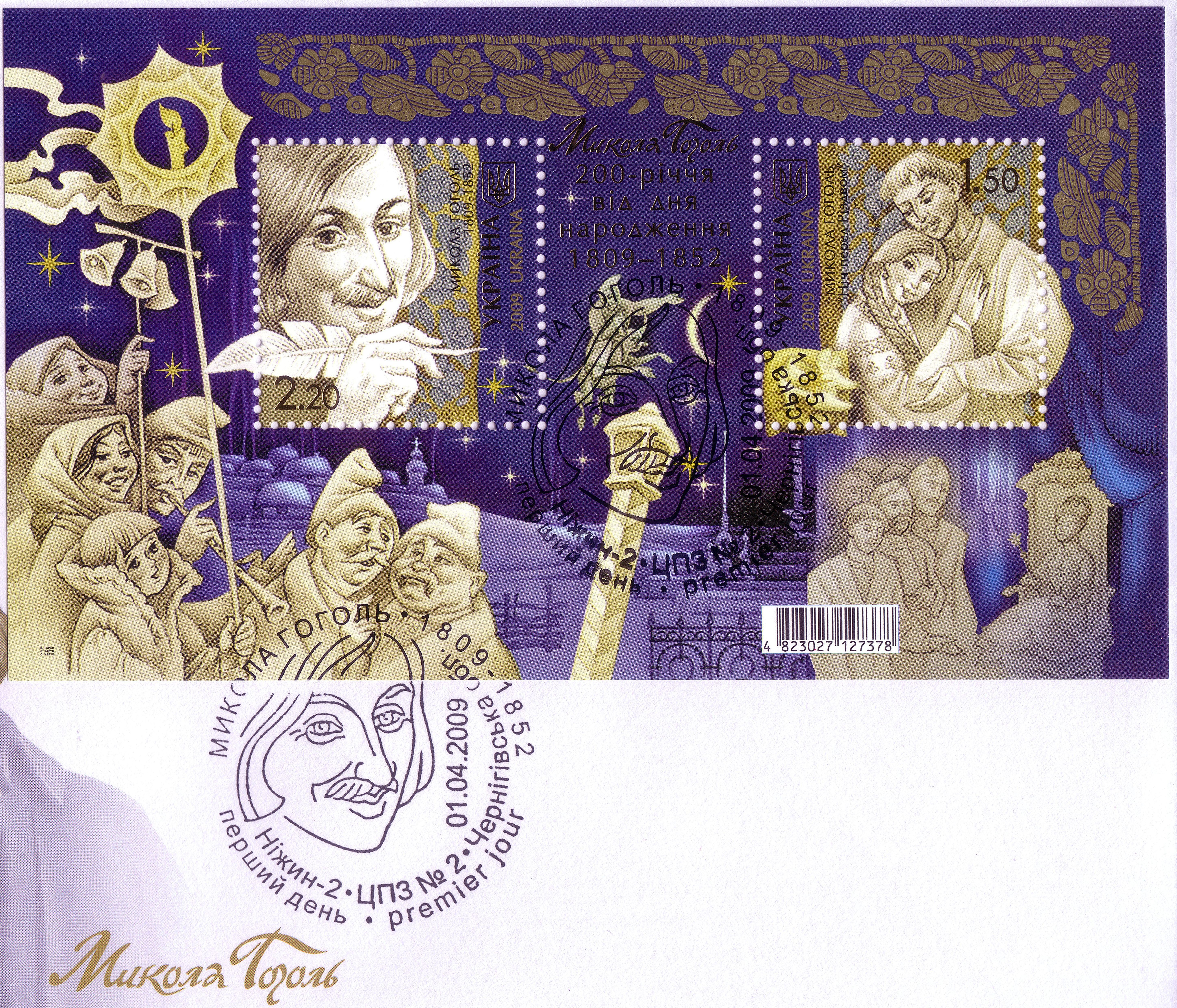 Stamps of Ukraine 200th birth anniversary of Nikolai Gogol (1809-1852), 2009